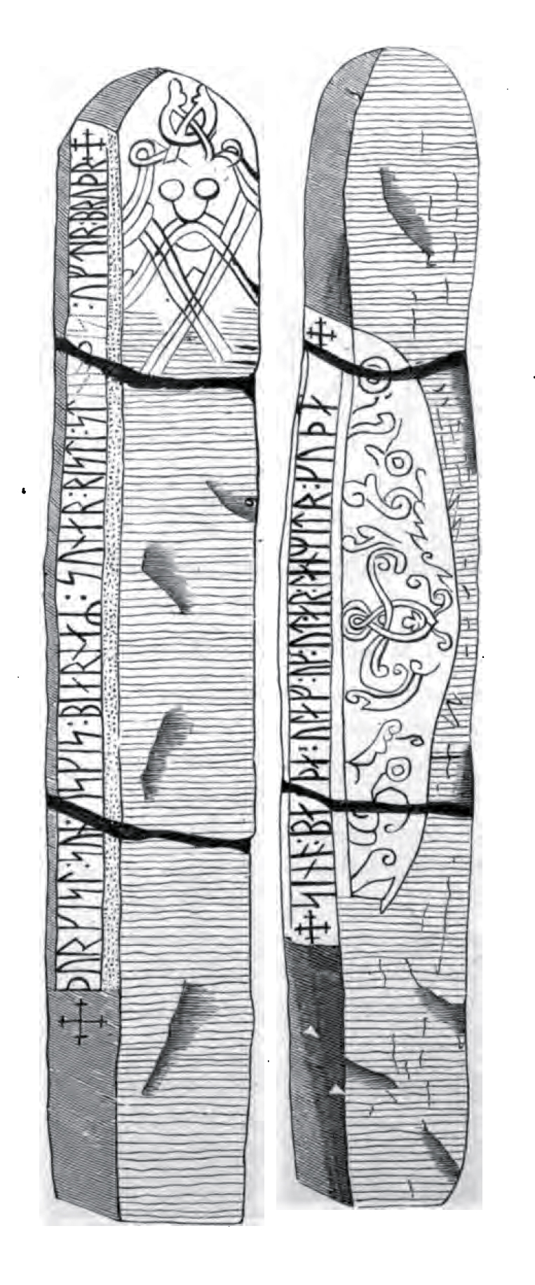 The runestone DR 314 from Lund, Allhelgonakyrkan. The inscription reads §A + þu(r)[kisl ÷ sun ÷ i]sgis ÷ biarnaR ÷ sunaR ÷ risþi ÷ sti[no ÷ þisi] ÷ (u)(f)tiR ÷ bruþr + §B + sino ÷ baþa ÷ ulaf ÷ uk ÷ utar ÷ lanmitr ÷ kuþa + . In English "§A Þorgísl, son of Ásgeirr Bjôrn's son, raised these stones in memory of both of his brothers, §B Ólafr and Óttarr, good landholders."